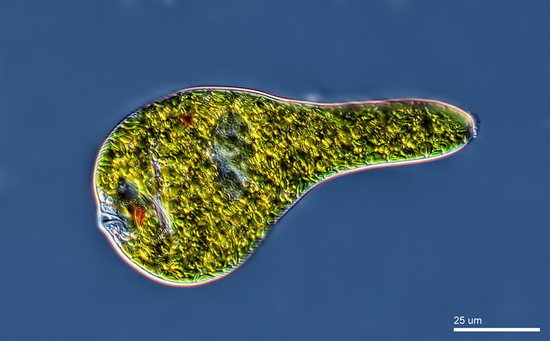 Typical euglenoid movement (metaboly) Picture courtesy of Rogelio Moreno.